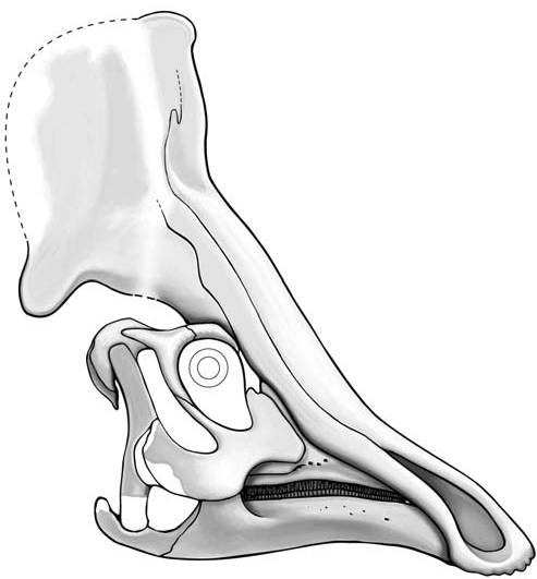 Reconstruction of the skull of hadrosaurid dinosaur Olorotitan arharensis Godefroit, Bolotsky, and Alifanov, 2003, from the Upper Cretaceous of Kundur (Russia), in right lateral view. Known material in gray.